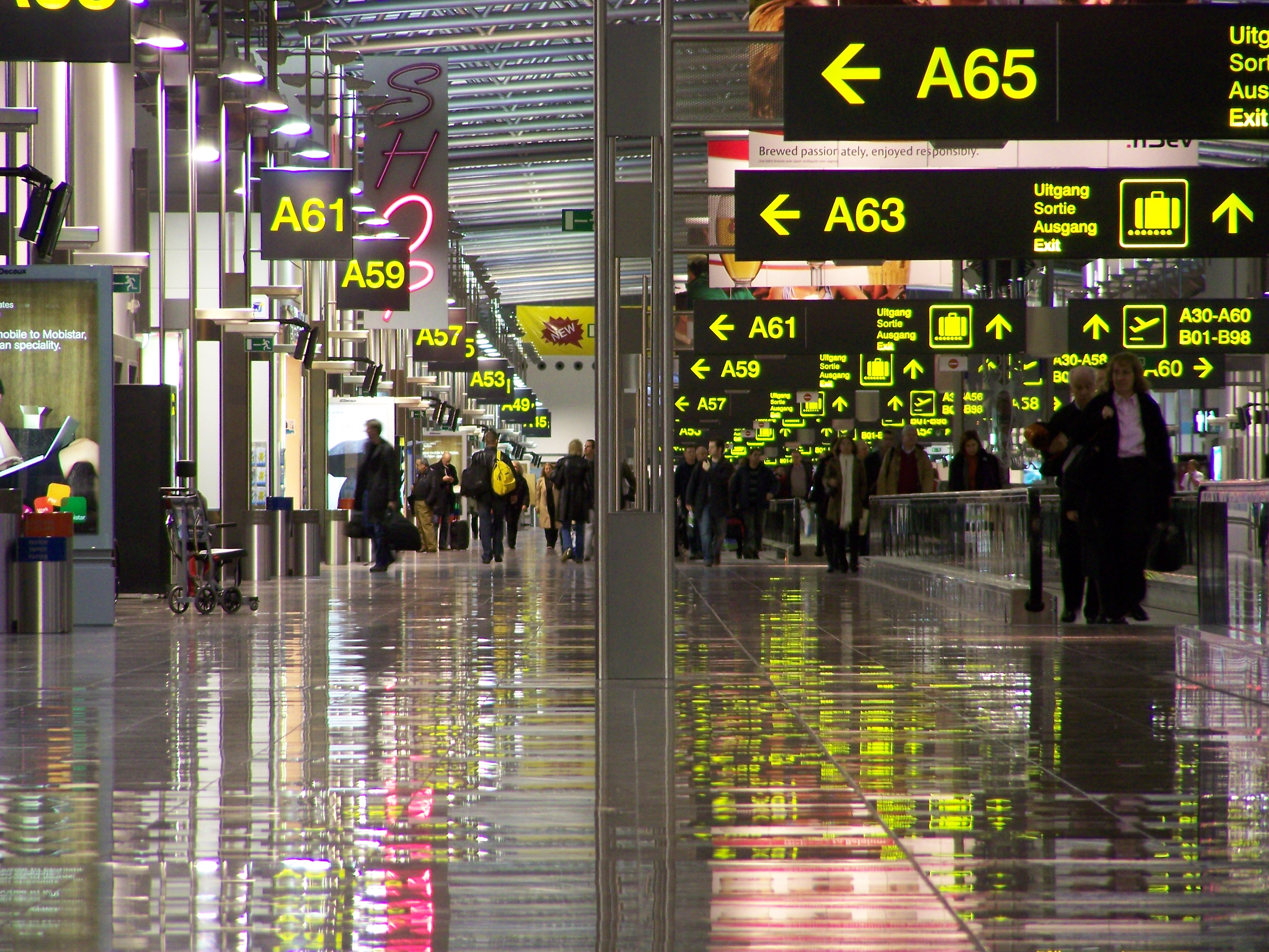 Pier A of Brussels Airport.